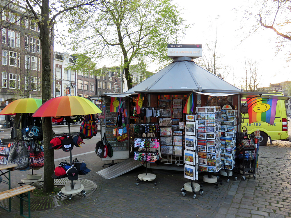 The Pinkpoint shop and information stand next to the gay monument at the Westermarkt in Amsterdam, May 2016